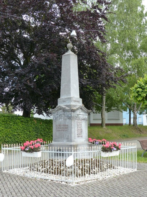 Charlottenberg, Waldenserdenkmal